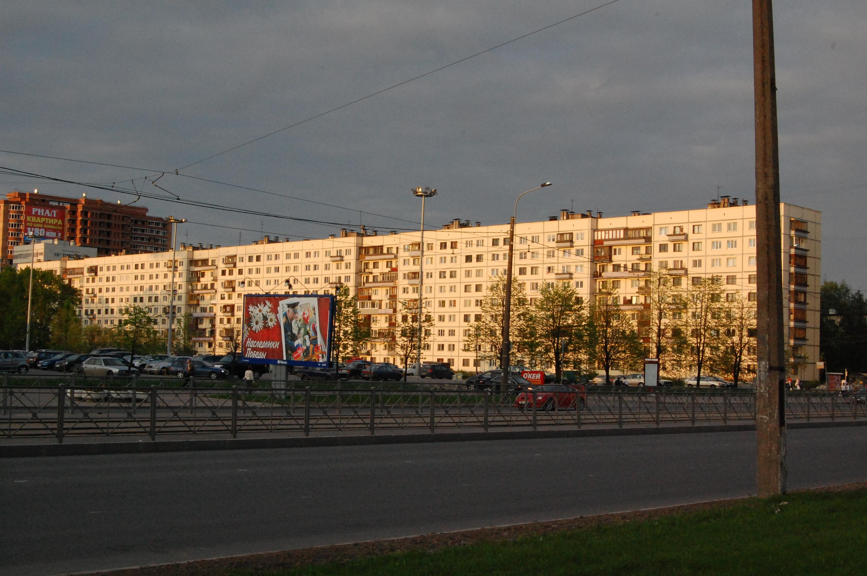 Ushinskogo Street in Saint Petersburg (crossing with Prosvescheniya Avenue)